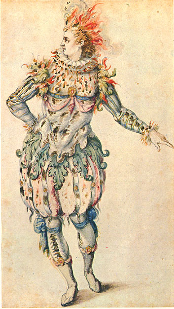 Masque costume "A Star" by Inigo Jones (17th century)